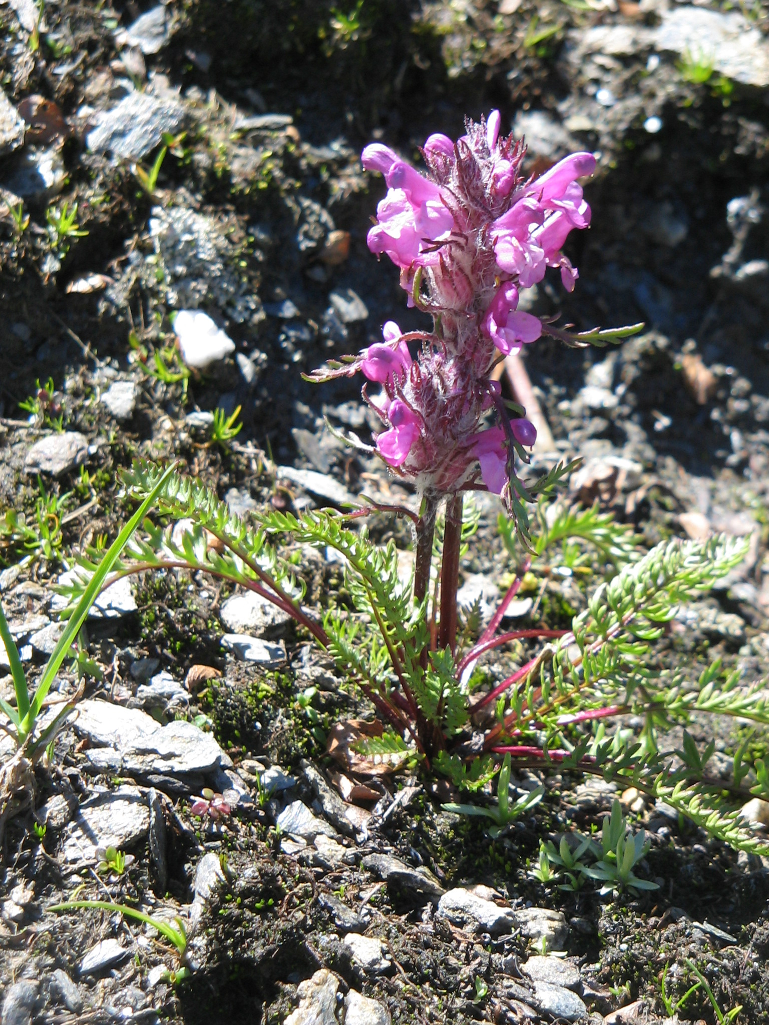 Pedicularis rosea subsp. allionii